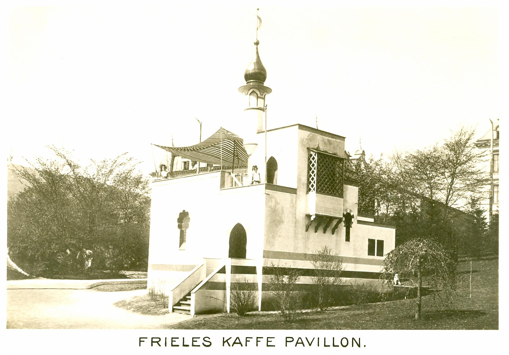 Artist: K. Nyblin Date/place: 1898, Bergen/Norway Subject: The pavilion of the Norwegian coffee house Friele Medium: Postcard Notes: Official user from the Coffee House Friele tells us that the pavilion was built in collaboration with baker Martens. The guests of this Moorish pavilion were not only served free samples of cookies and coffee, but could also keep the "porcelain" cup - more than a hundred thousand of these keepsakes were distributed during the exhibition. Persistent URL: Original belongs to the Local Collection at Bergen Public Library